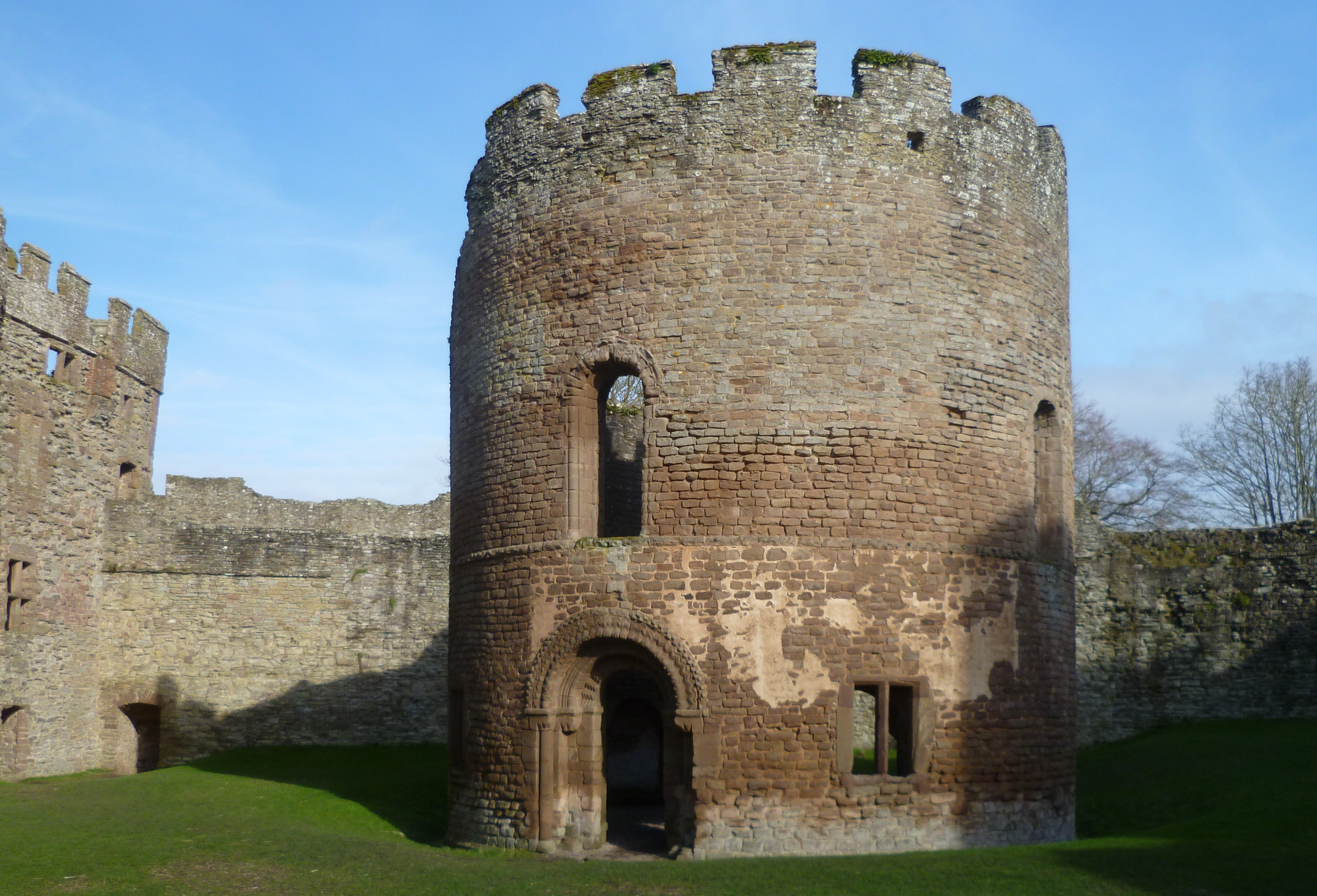 The Round Chapel in Ludlow Castle, Shropshire. The chapel of Saint Mary Magdalene was built in the 12th-century and is one of only three circular castle chapels in England. As part of the castle this is a Grade I Listed Building in England.